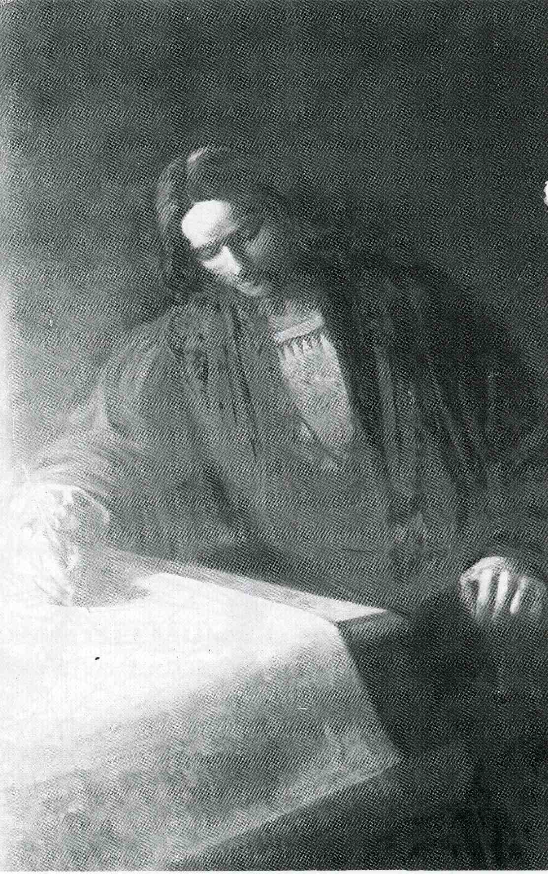 Cartographer Martin Waldseemüller in a 19th cengury phantasy portrait formerly in the Theatre of Saint-Dié-des-Vosges; lost today